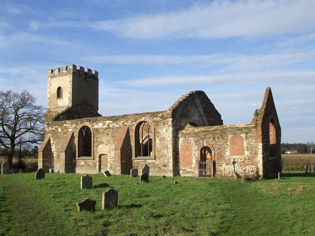 Ruin of All Saints' parish church, Segenhoe, Bedfordshire, seen from the southeast